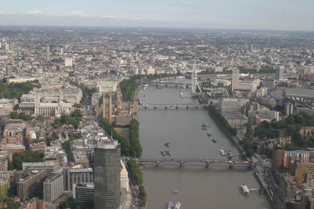 A London View Looking Down the River Thames